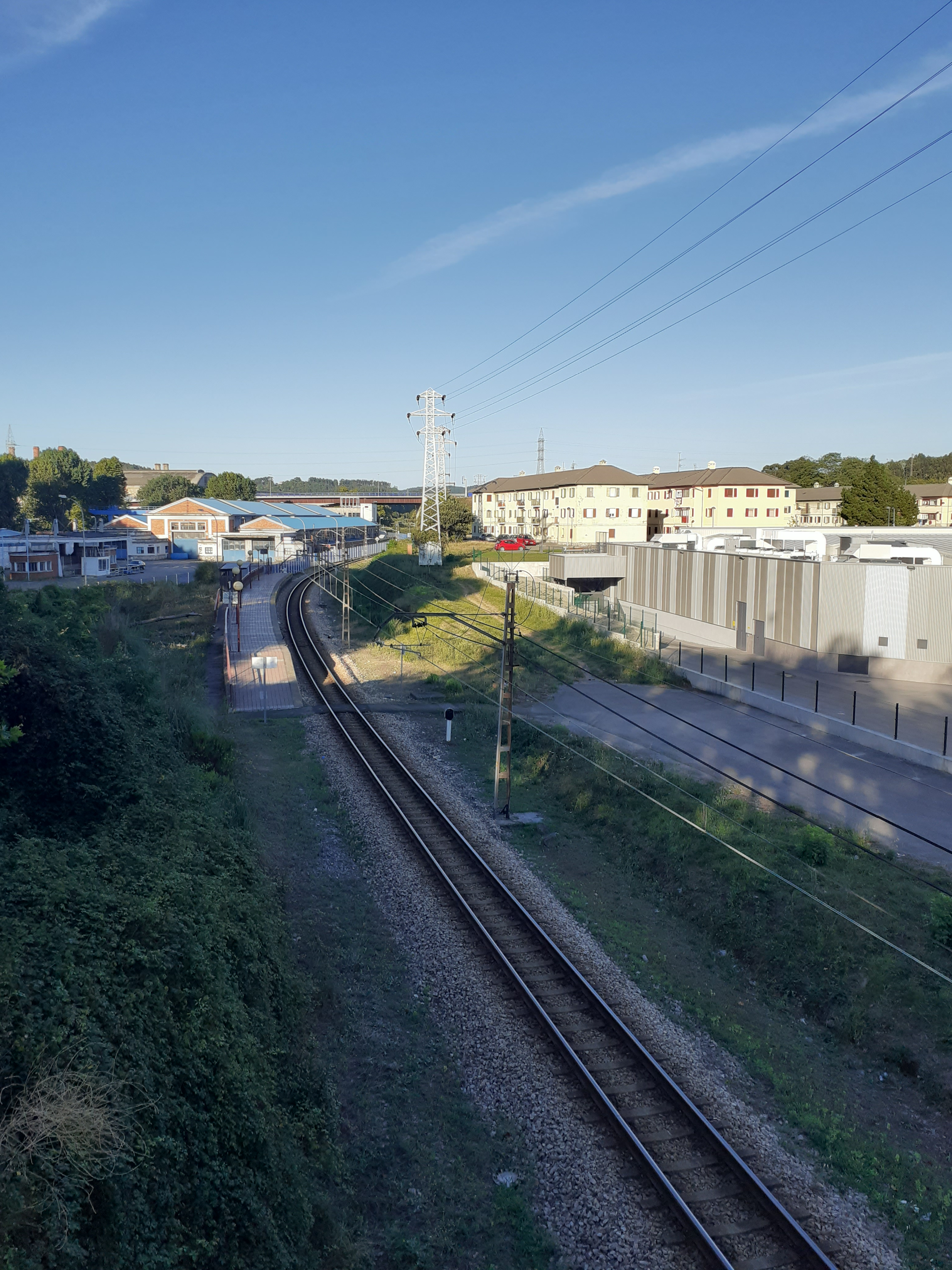 Llaranes train halt, on the Ferrol-Gijón railway line